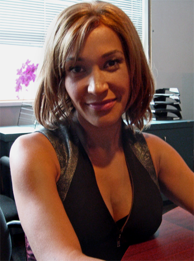 Rachel Luttrell at Bridge Studios in Vancouver, BC